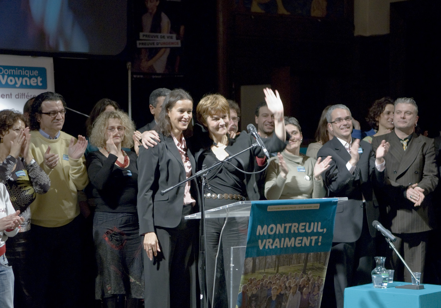 Dominique Voynet and the other candidates at a meeting held on March 4, 2008 for the municipal elections at Montreuil's town hall.